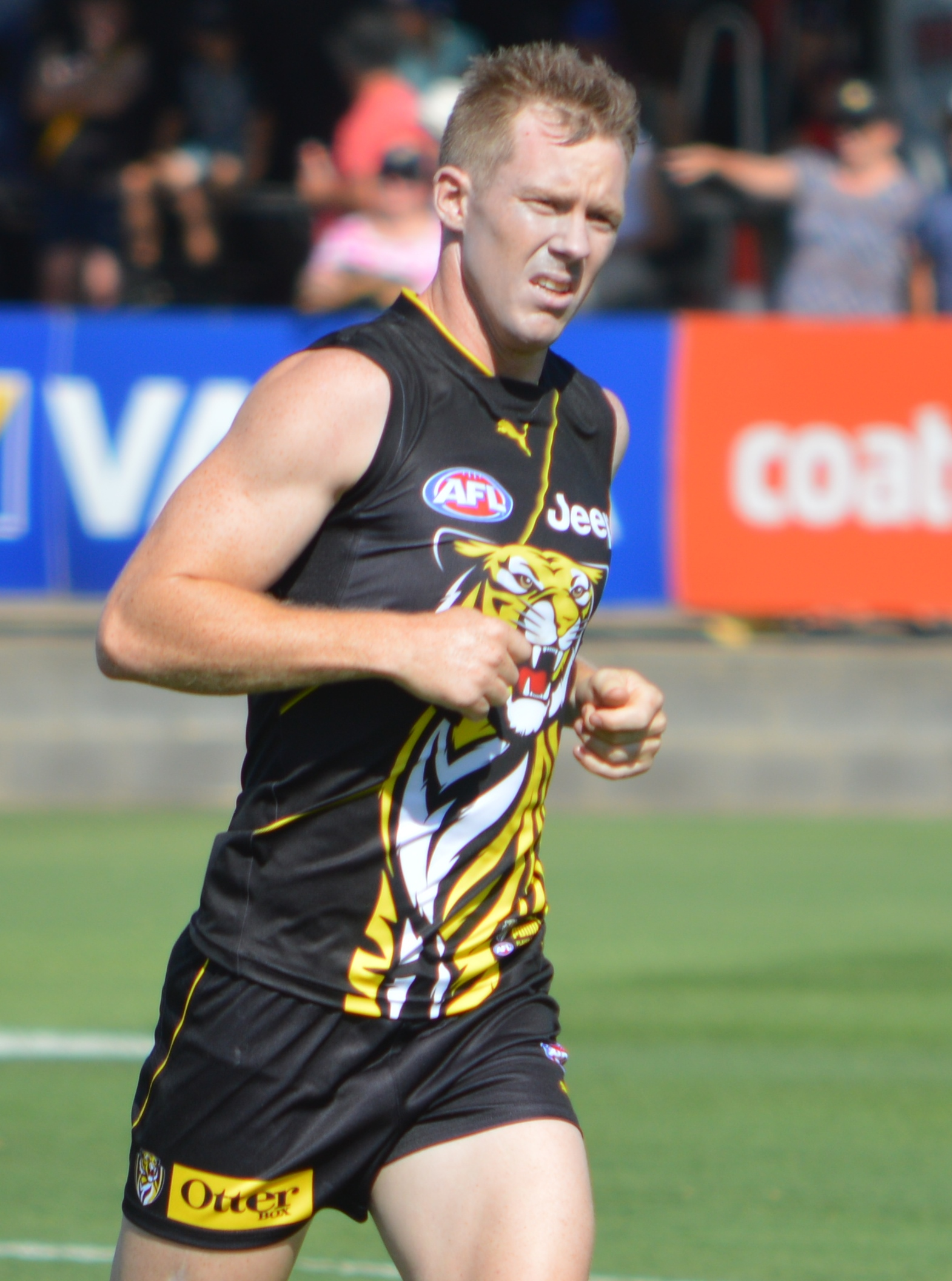 Jack Riewoldt with Richmond during a JLT Community Series match against Melbourne in Shepparton in March 2019.